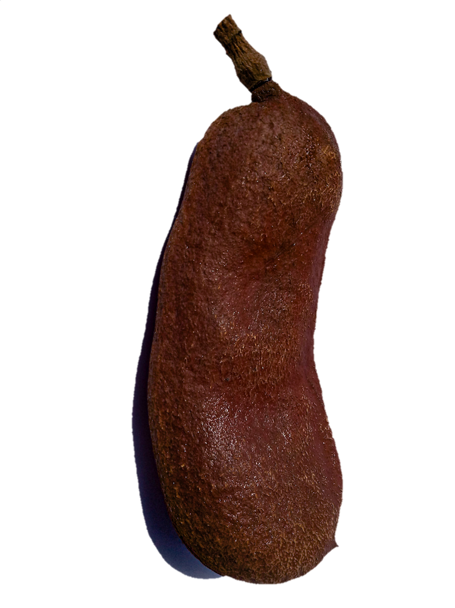 Jatoba clove on white background